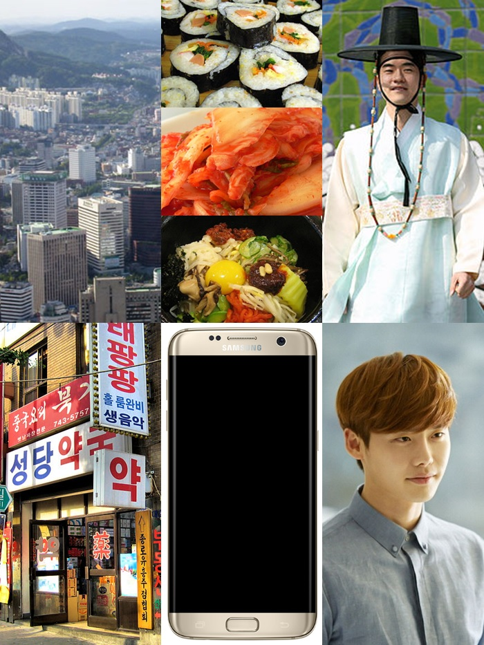 Different aspects of korean culture